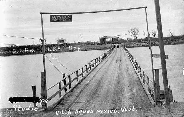 View of Del Rio from Acuna during prohibition in 1922